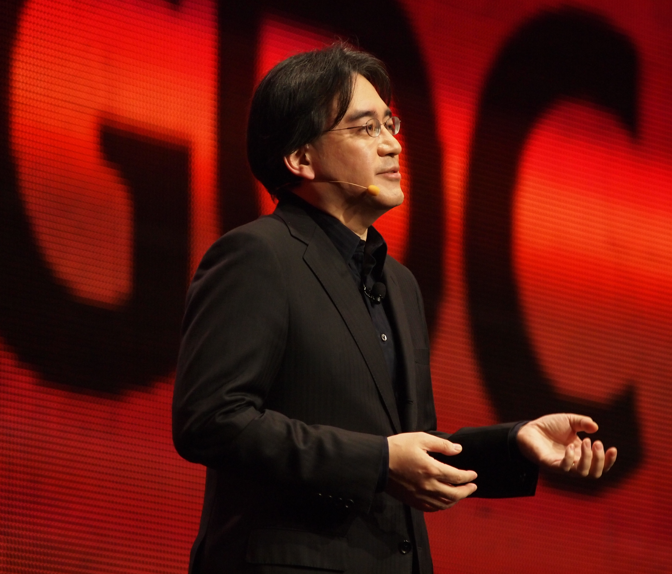 Satoru Iwata at the Game Developers Conference in 2011 (third day), speaking at session "Video Games Turn 25: A Historical Perspective and Vision for the Future".